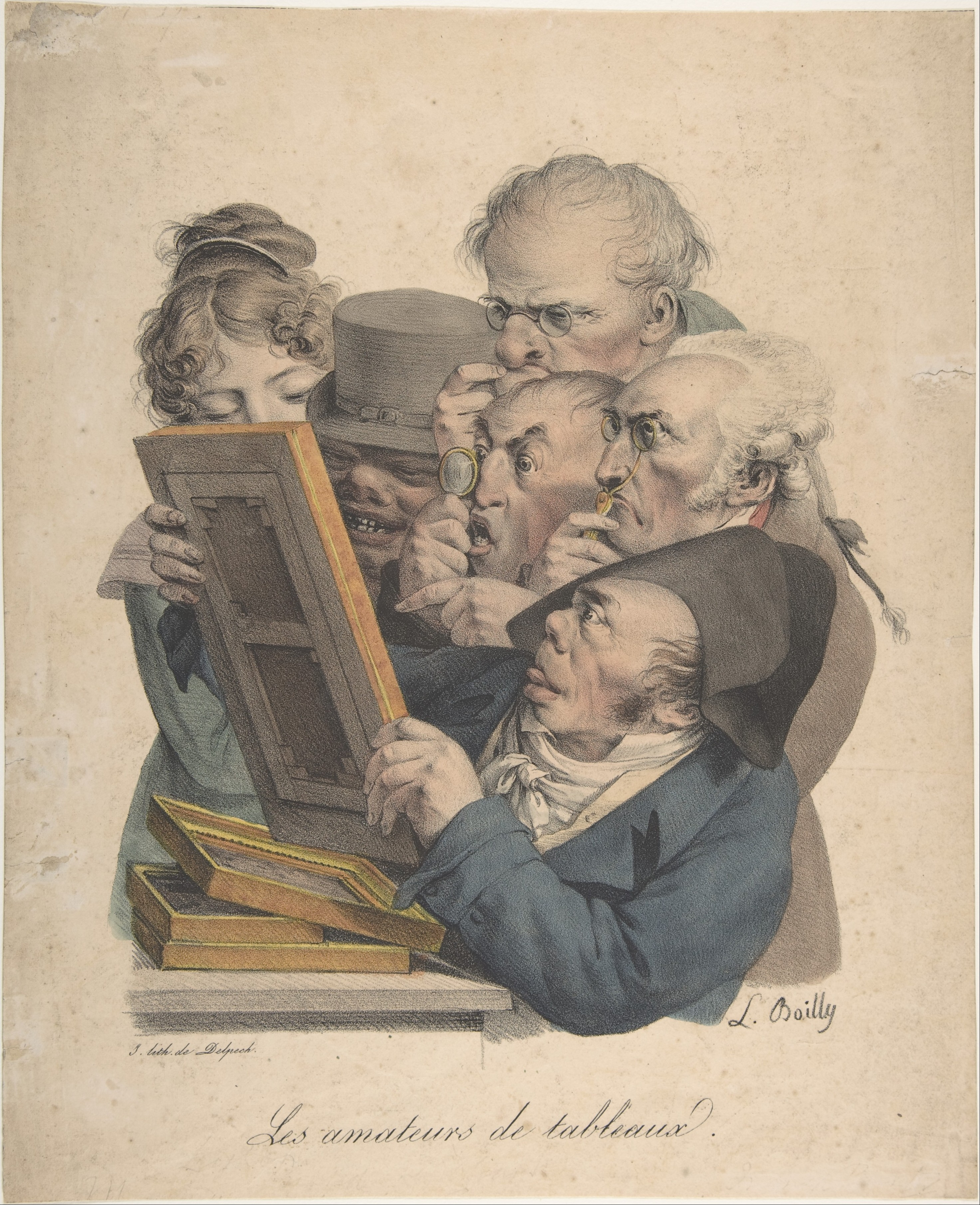 Print; Prints